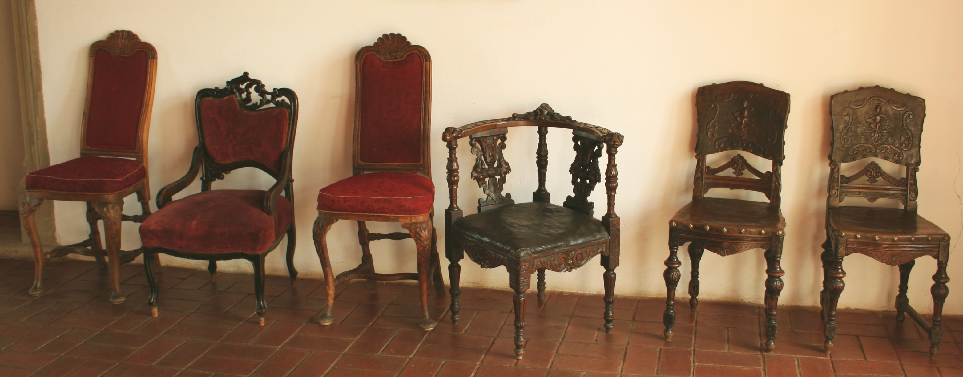 Exposition of chairs in Historic Museum in Sanok, Poland